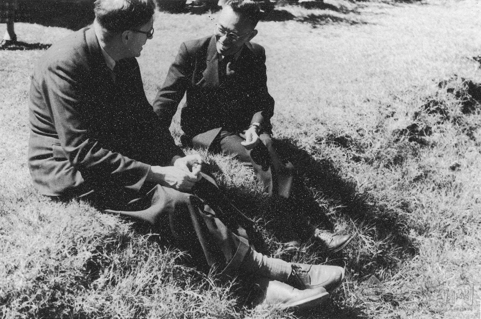 In 1944, Tang Fei-fan was talking with British sinologist Joseph Needham in the lawn, in Central Epidemic Prevention Department.